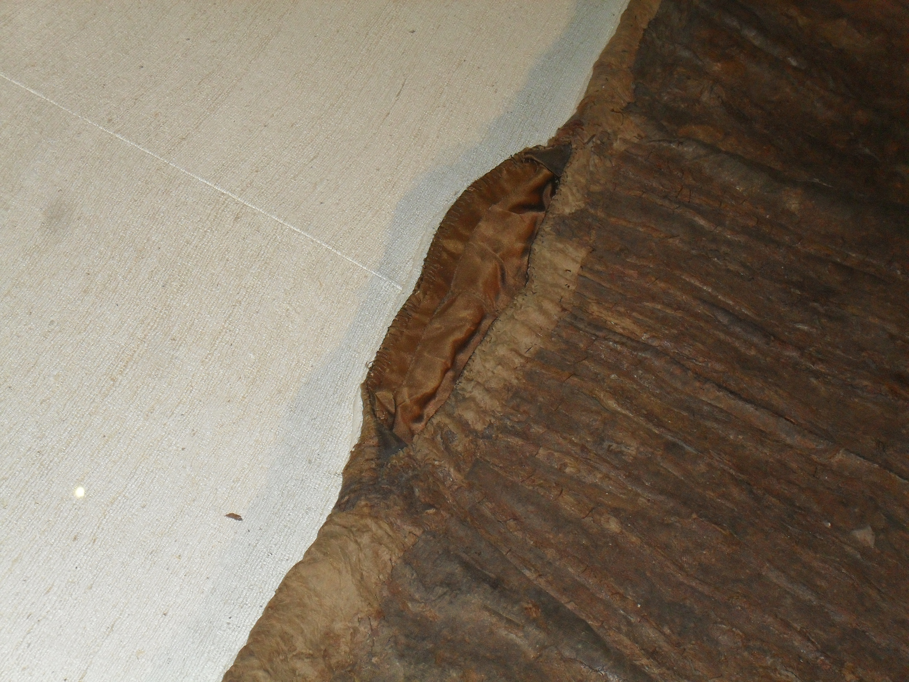 Collar-less neck of the Seamless robe of Jesus